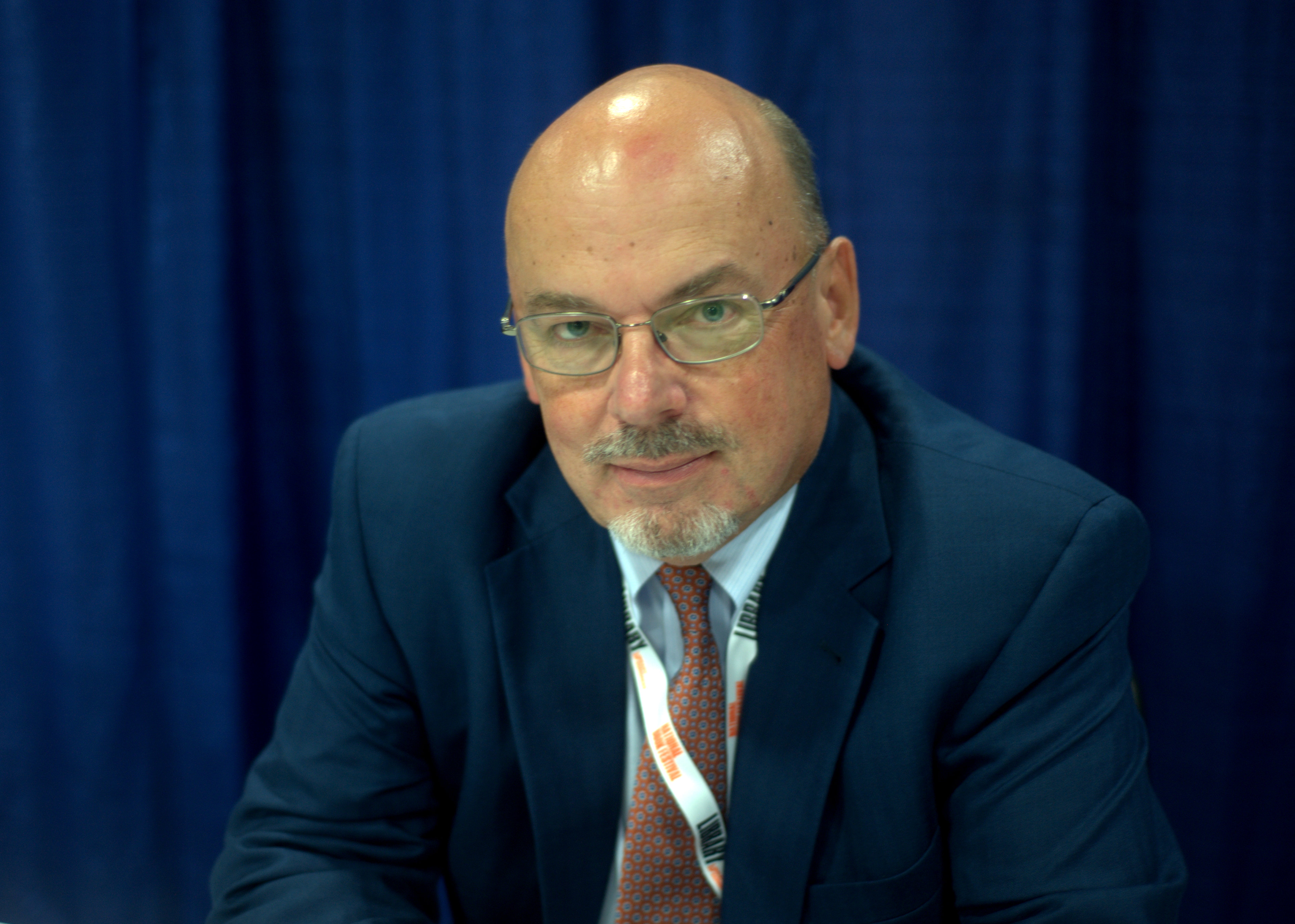 2018 National Book Festival